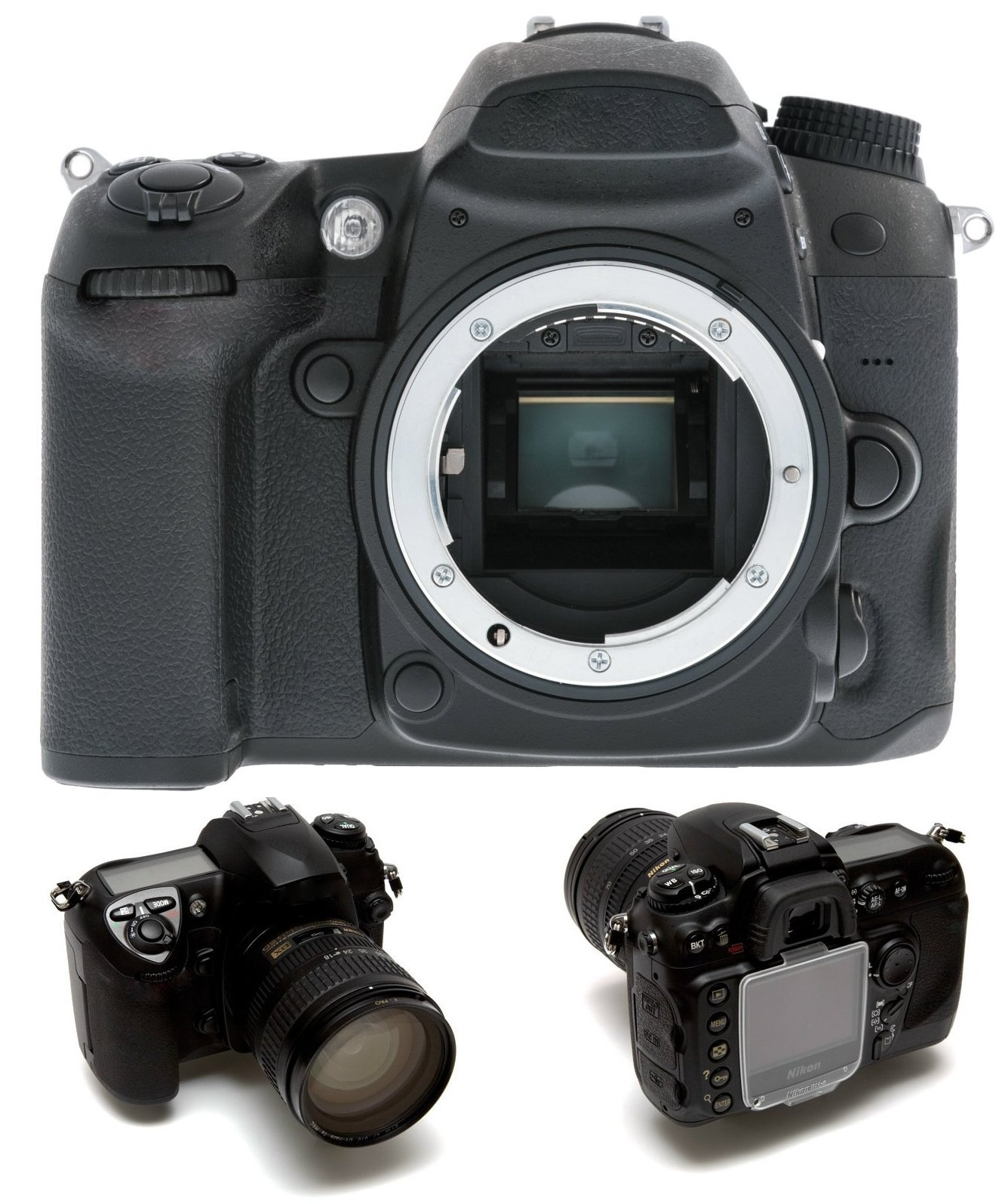 Neutral image of a digital camera, with a view of the image sensor (without lens), bottom with lens (left) and camera back (right).